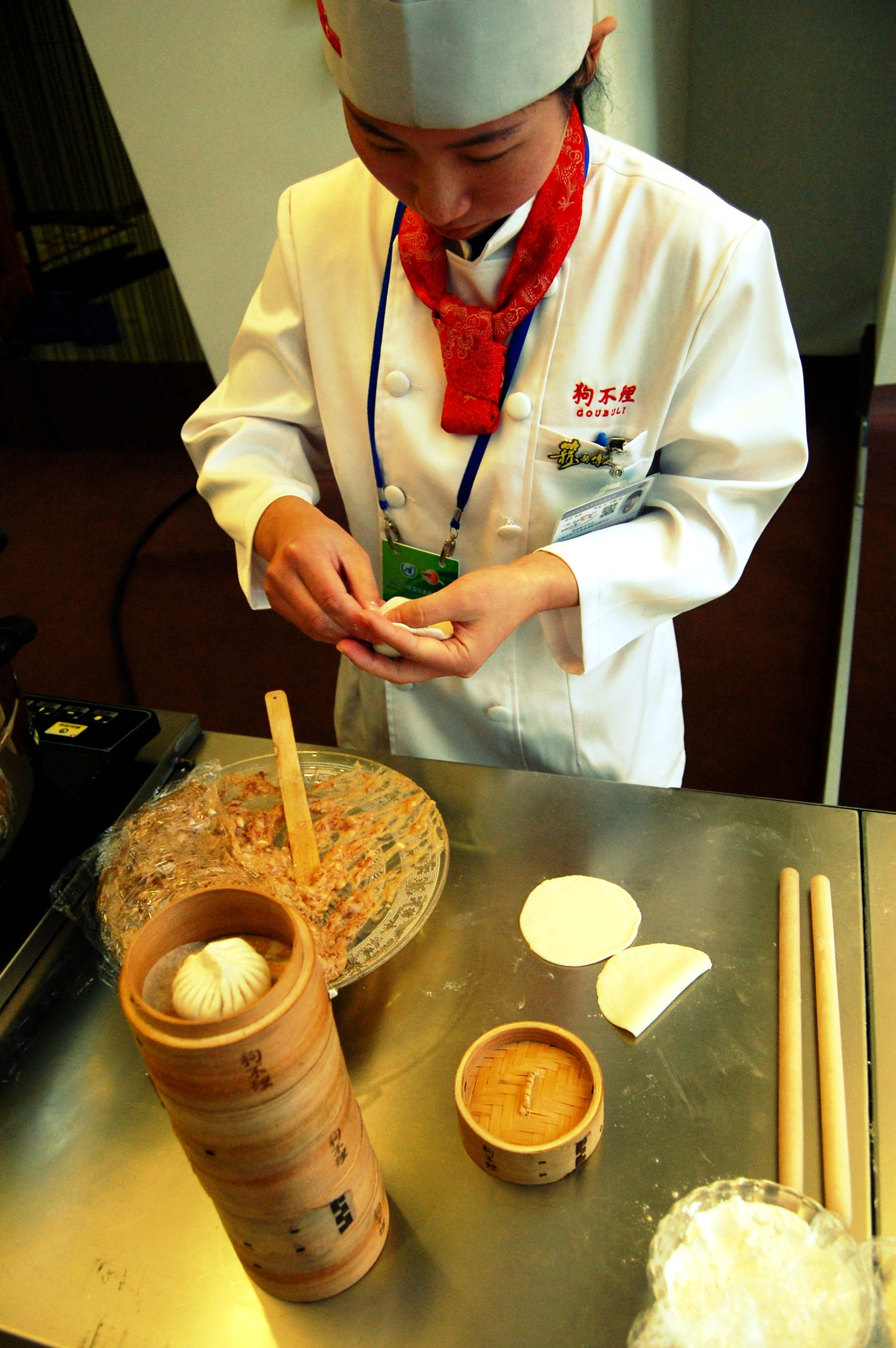 October 2010